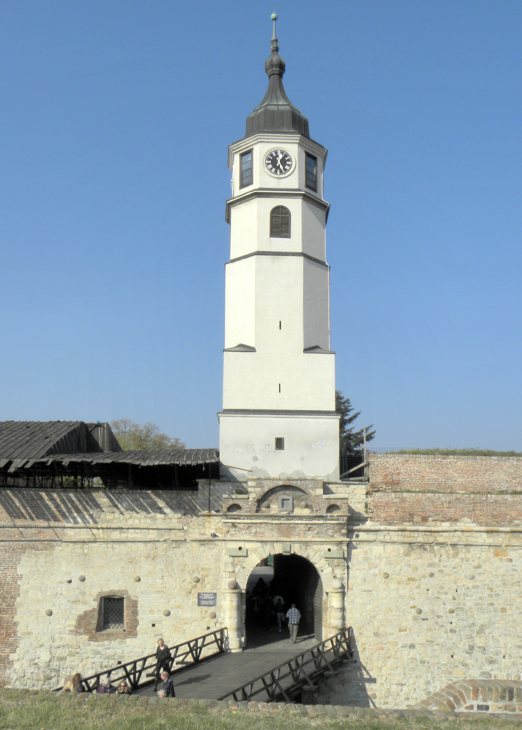 Belgrade Fortress consists of the old citadel (Upper and Lower Town) and Kalemegdan Park (Large and Little Kalemegdan) on the confluence of the River Sava and Danube, in an urban area of modern Belgrade, the capital of Serbia. It is located in Belgrade's municipality of Stari Grad. Belgrade Fortress was declared a Monument of Culture of Exceptional Importance in 1979, and is protected by the Republic of Serbia. It is the most visited tourist attraction in Belgrade, with Skadarlija being the second. Since the admission is free, it is estimated that the total number of visitors (foreign, domestic, citizens of Belgrade) is over 2 million yearly.